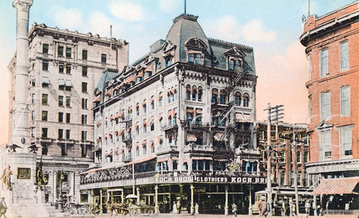 Postcard photo of the exterior of Hotel Allen, located on the northeast corner Center Square about 1912. As early as the 1770s, before the Revolution, there was an inn at this site. It was used as a drinking establishment for the settlers of Allentown as well as a political hall. It was the post office and also where the first Mayor of the borough of Northampton town was elected in the 1830s. Later, a larger hotel was built about 1810 and after the Civil War, the grand Hotel Allen was built in 1891. Hotel Allen was the hotel where politicians and business executives and bankers would meet and stay. The ground floor was also the home of the Koch Brothers Men's Clothing store, where fine clothes were sold for businessmen. Beginning in the 1920s, more modern hotels were built in Allentown and by the end of World War II Hotel Allen had lost much of its gilded age glamour. It closed in 1946, and in 1947, the upper three floors of the hotel were torn down. The Koch Brothers men's store took over the remaining building and put a Moderne-style facade over the 1890s building. In 1956, the building was acquired by the Allentown National Bank, which is shown in the tall white building just to the left of it. It was torn down in 1957 and replaced by the new First National Bank Building, First National being a merger of the Allentown National Bank and the Second National Bank.